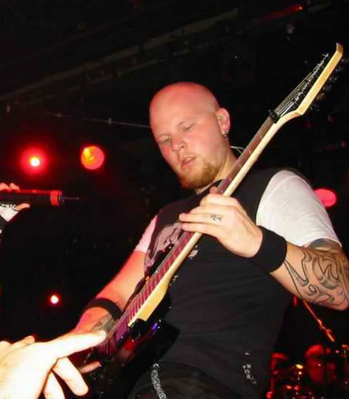 Ben Moody (ex-Evanescence), performing in Barcelona. May 29, 2003